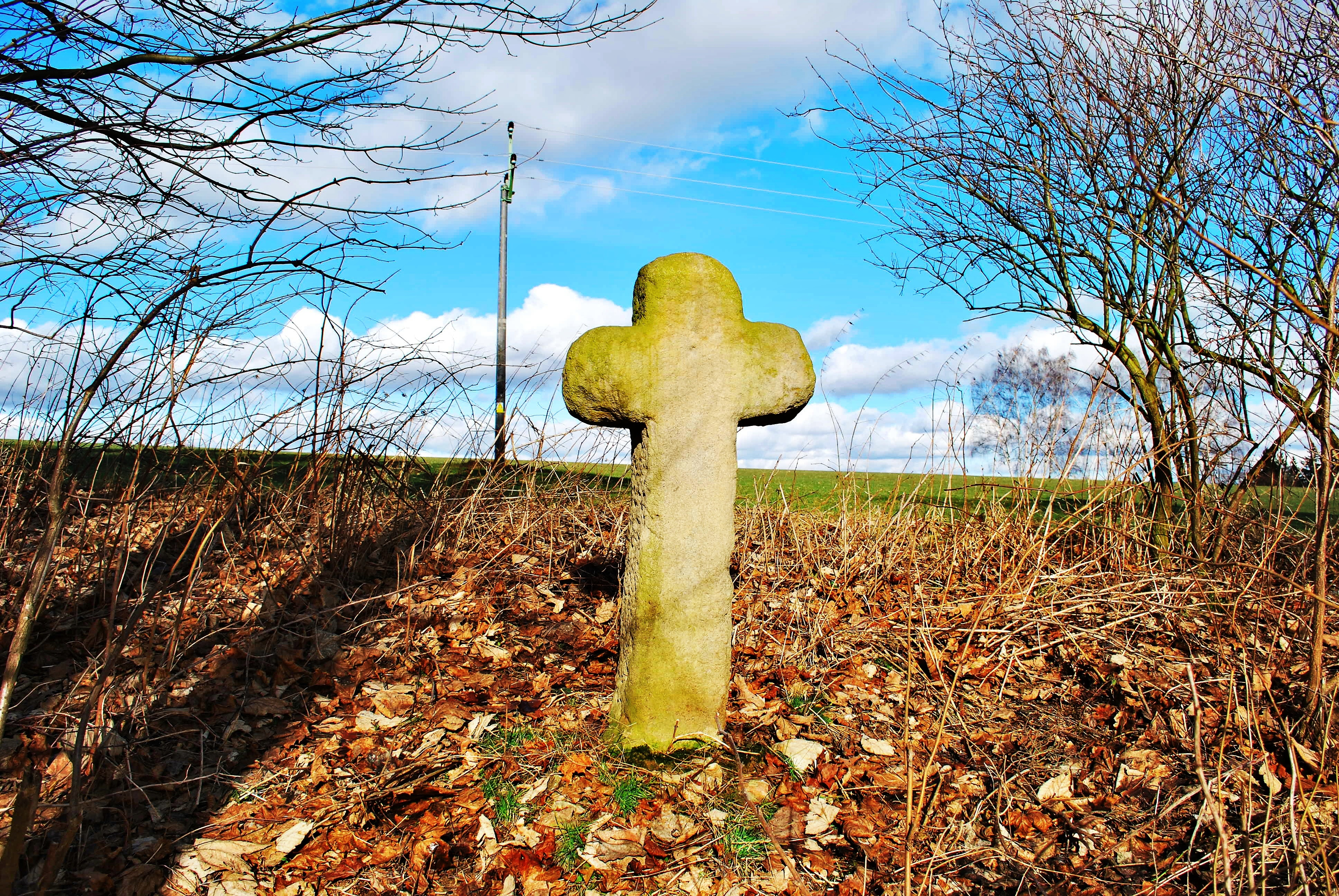 Conciliation Cross (Klanečná), the right of the road to Hurtova Lhota, Klanečná